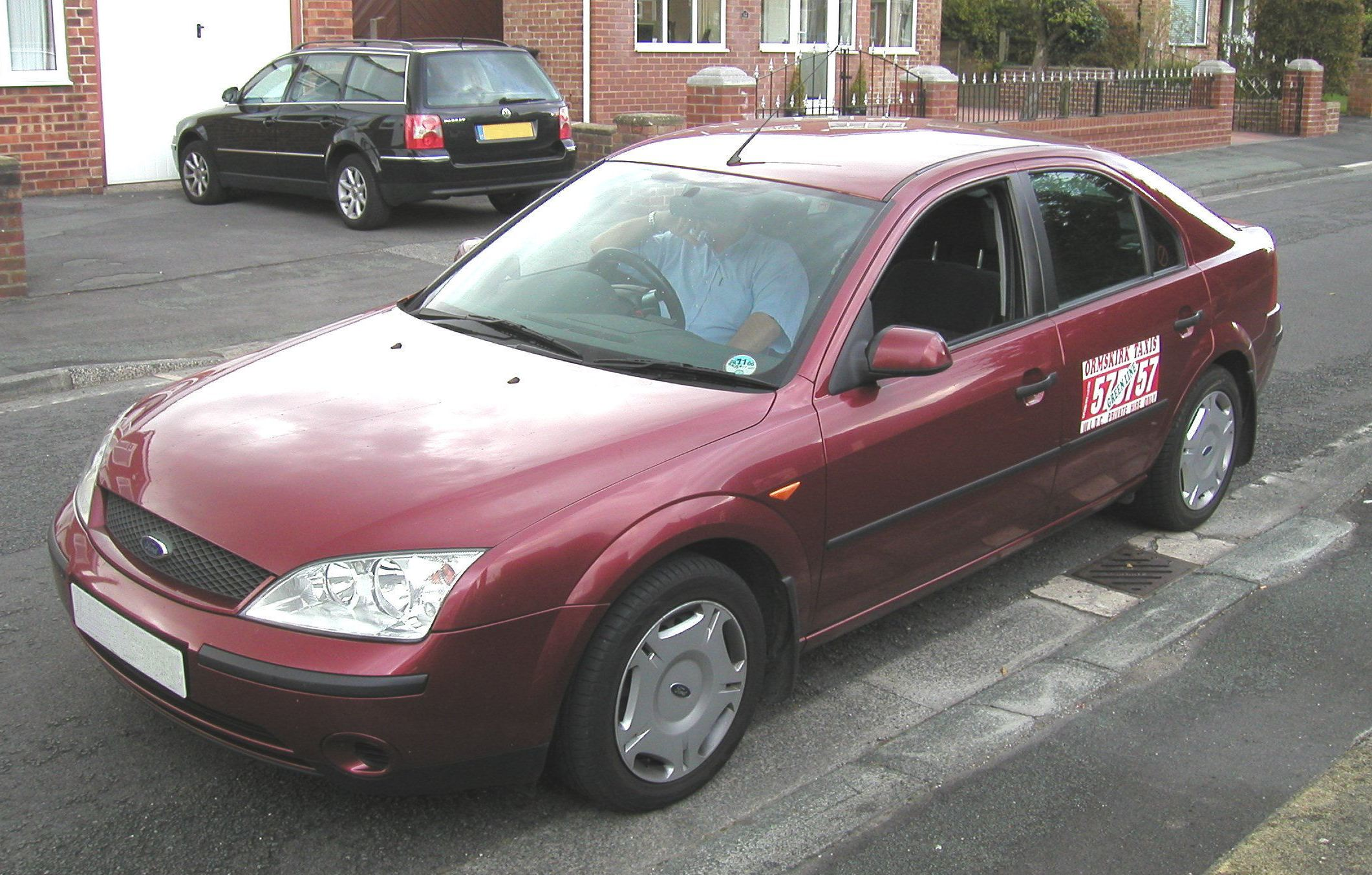 UK Minicab - note name and phone number on the side of the Ford Mondeo